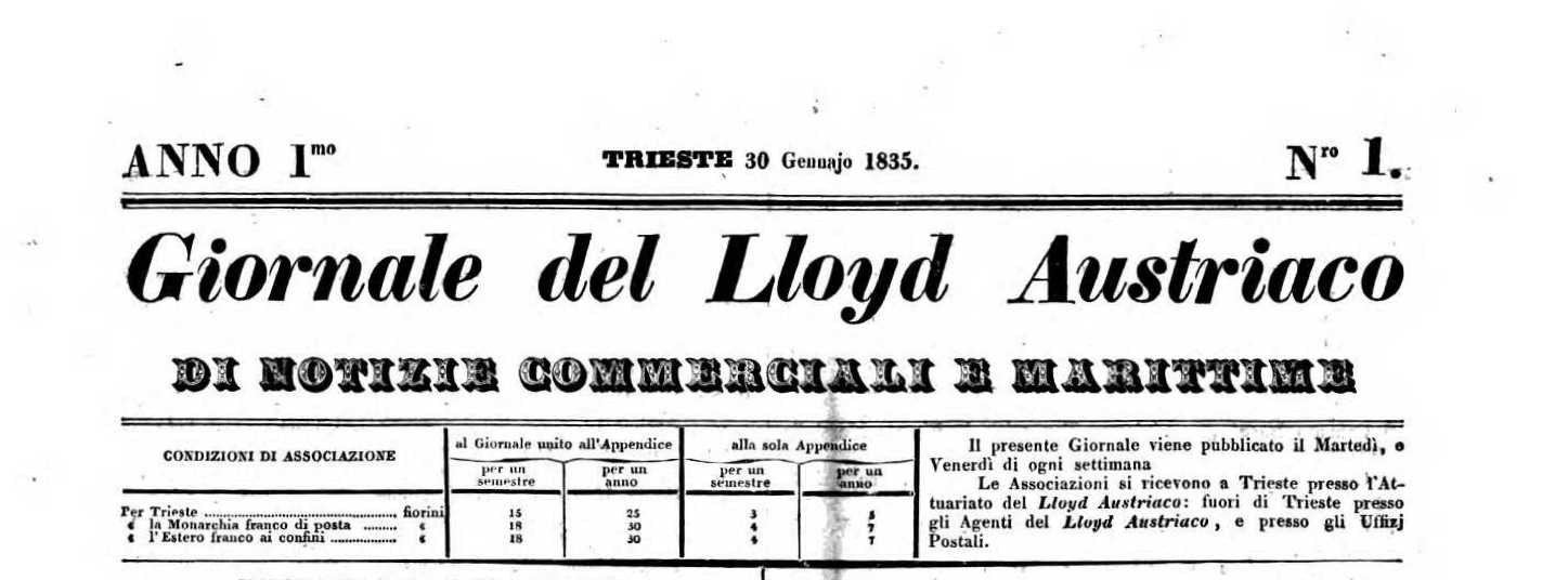 Giornale del Lloyd, newspaper head from 30/01/1835